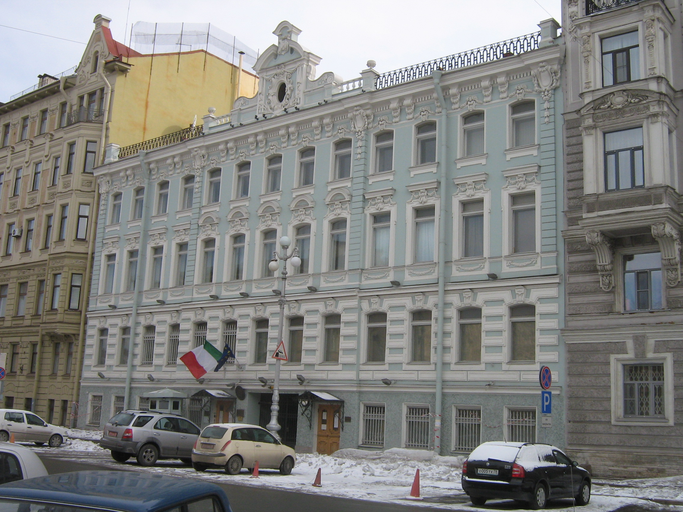 Saint Petersburg (Russia), General Consulate of Italy in Saint Petersburg.